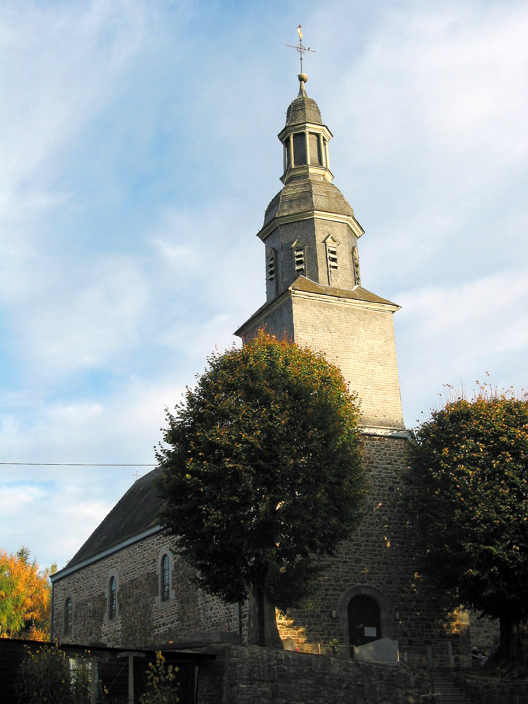 Masbourg (Belgium), Saint Ambrosius’ church (1711).